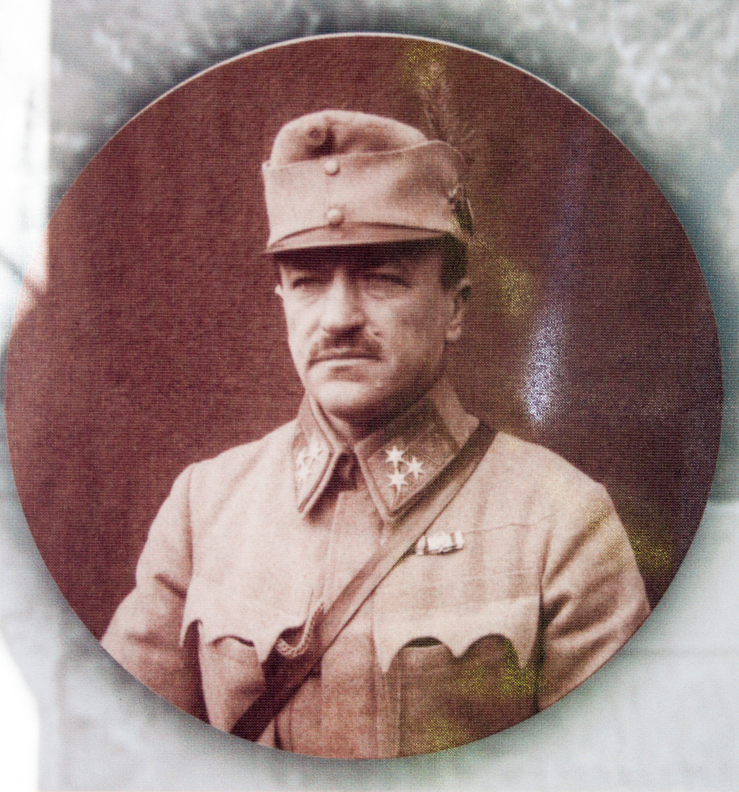 Károly Kratochvil on the Russian front